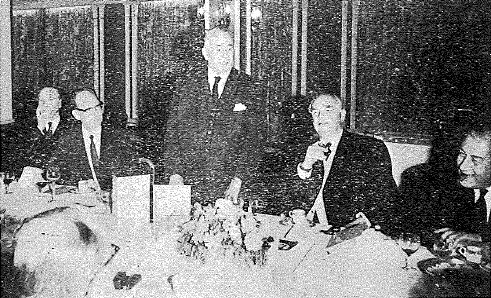 Mr. A. W. Richardson From 1968 to 1972 After the formal resolution which inaugurated the International Federation of Inventors Association in 1968, its General Assembly elected A. W. Richardson from Great Britain as its president. He published a message in Bulletin about this Federation expressing “it is the beginning of the first effective international co-operation between inventors”.